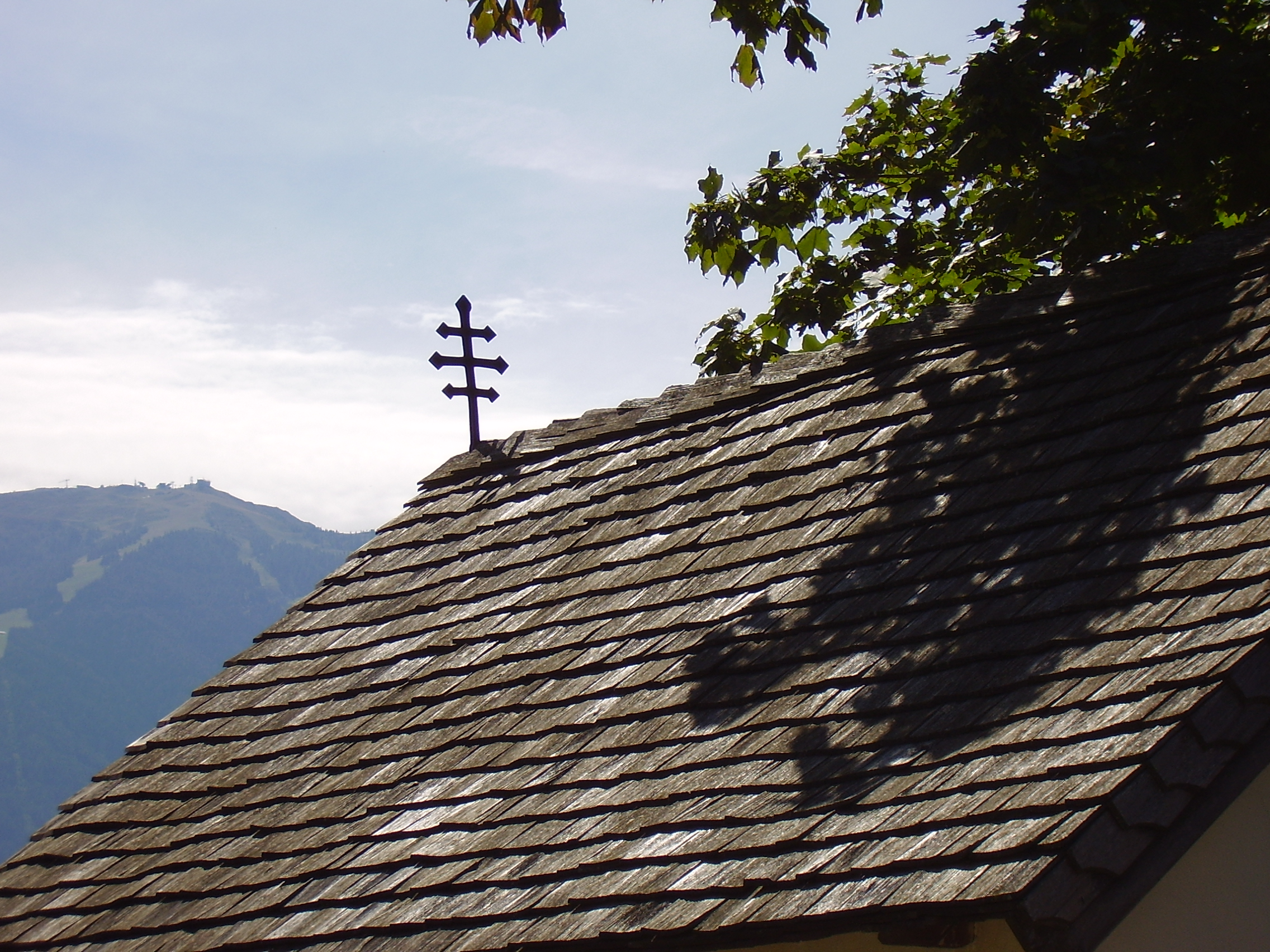 The "Kronplatz" seen from the Vierzehn-Nothelfer-Kapelle in St. Georgen (Bruneck, South Tyrol, Italy)